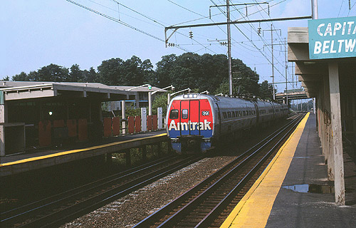 A southbound Metroliner train at Capital Beltway station in June 1979